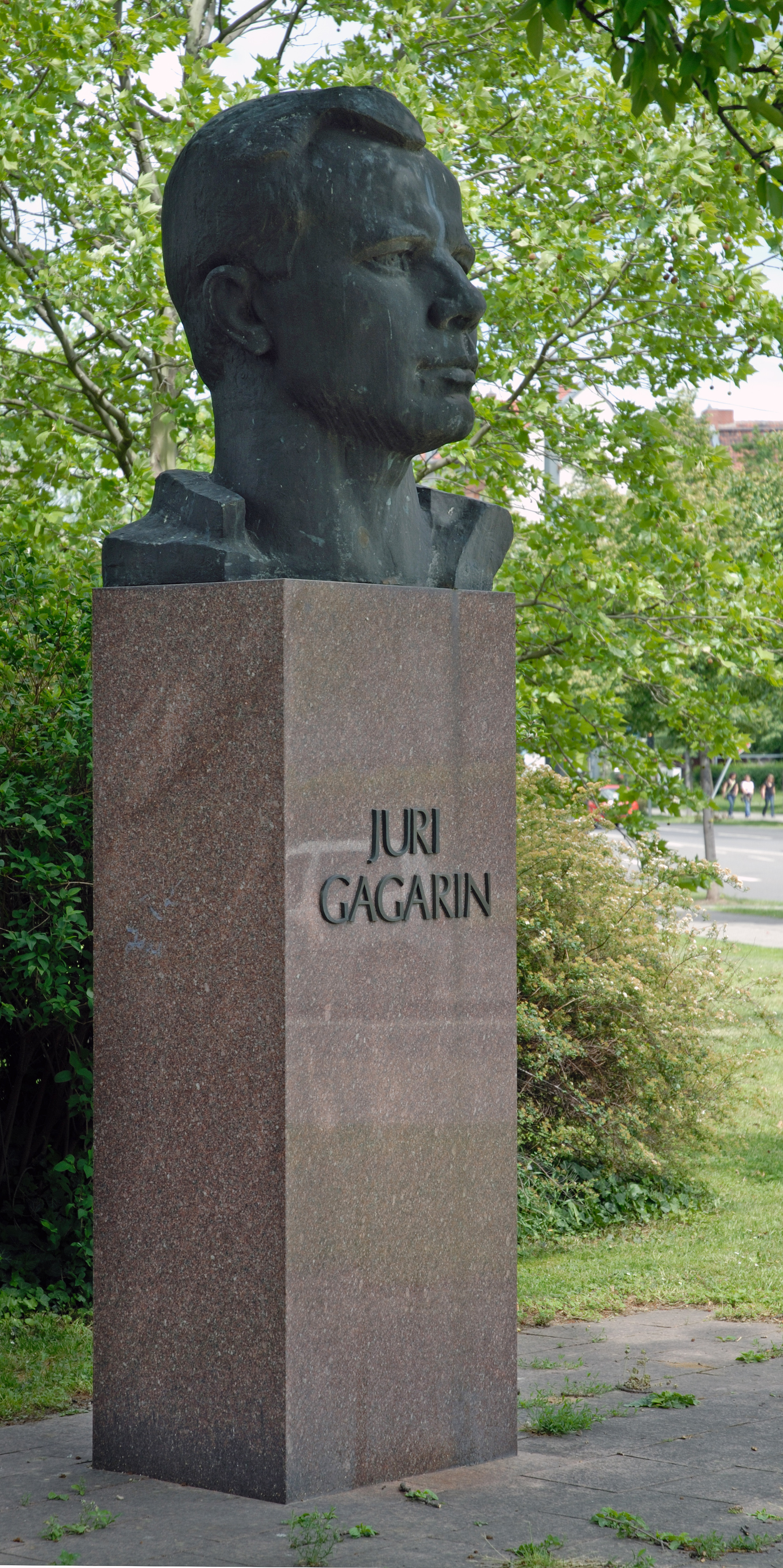 This image shows the Juri Gagarin memorial in Erfurt, Germany.